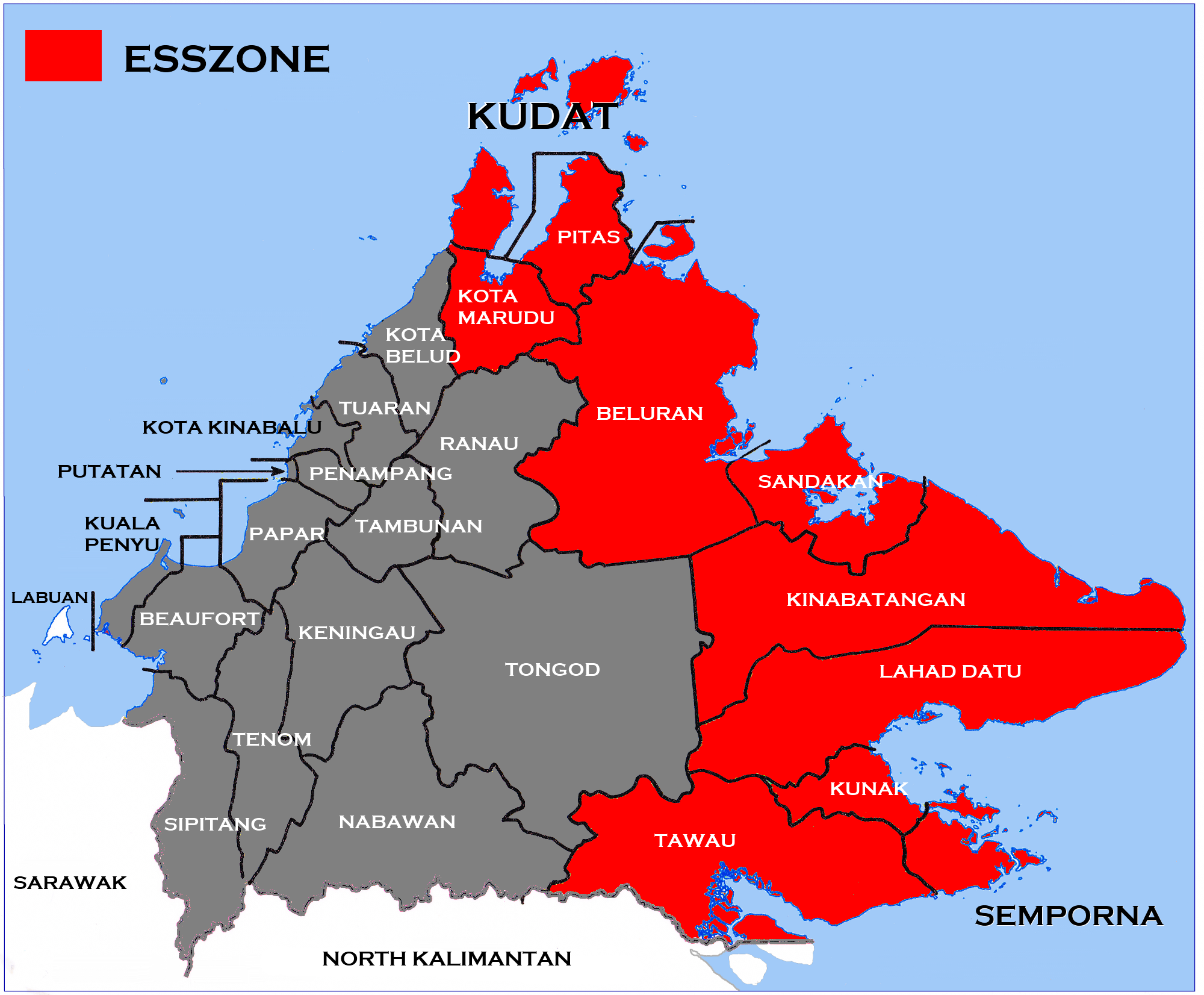 ESSZONE area